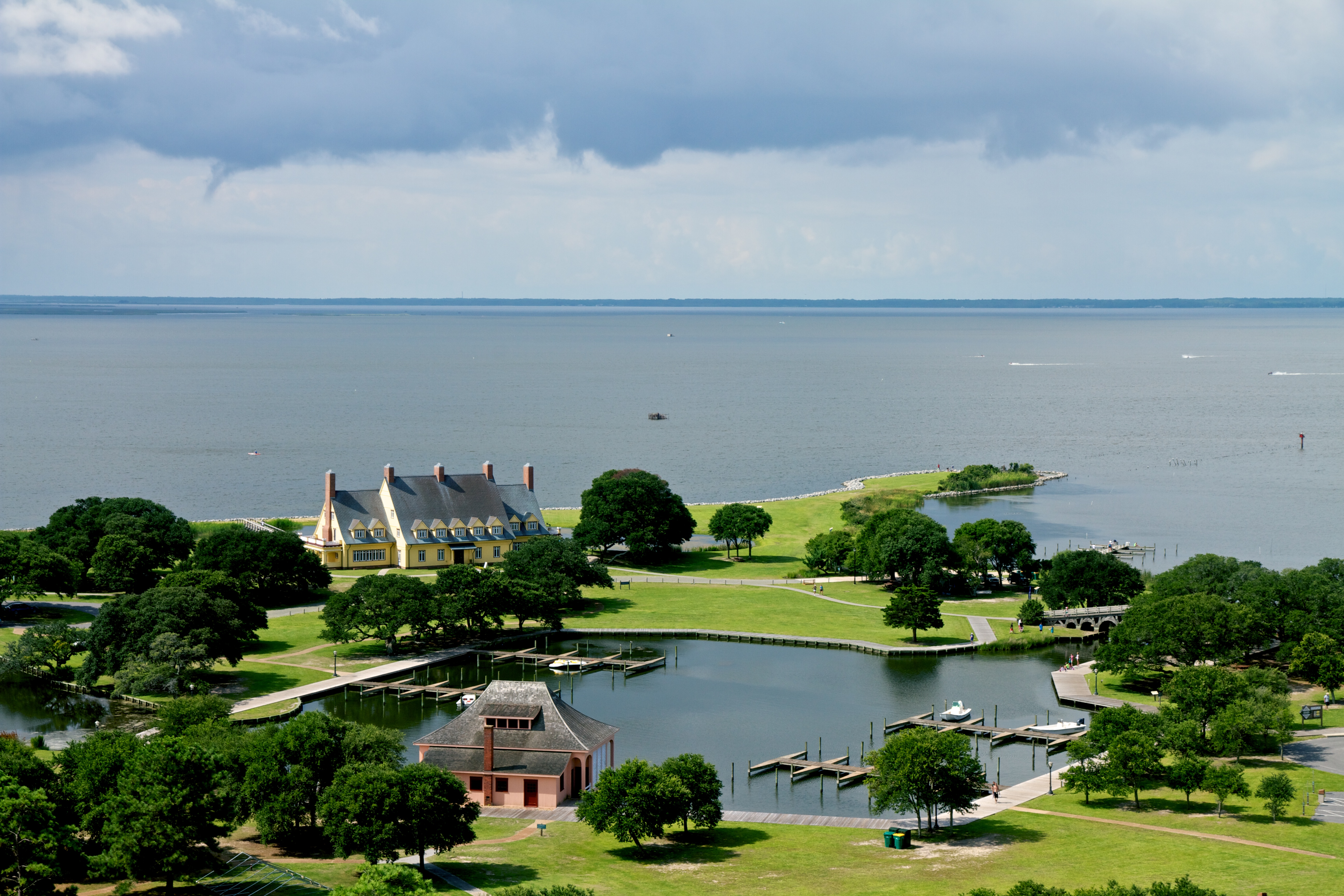 View from the top of the Currituck Beach Lighthouse of the Whalehead Club Historic House Museum, the restored private residence of northern industrialist and conservationist, Edward C. Knight Jr. and his bride Marie Louise.